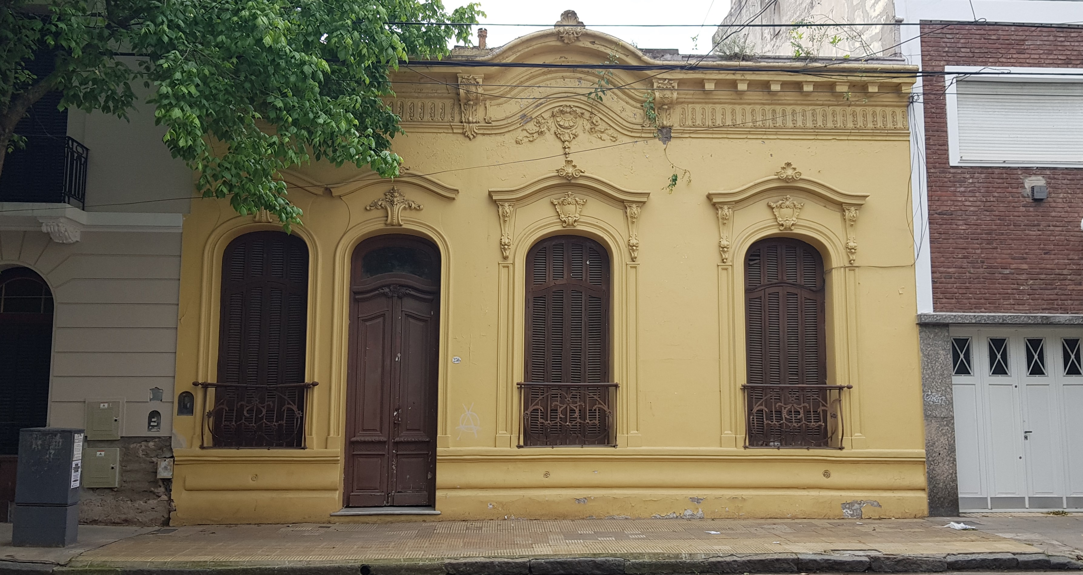 Casa Chorizo corto